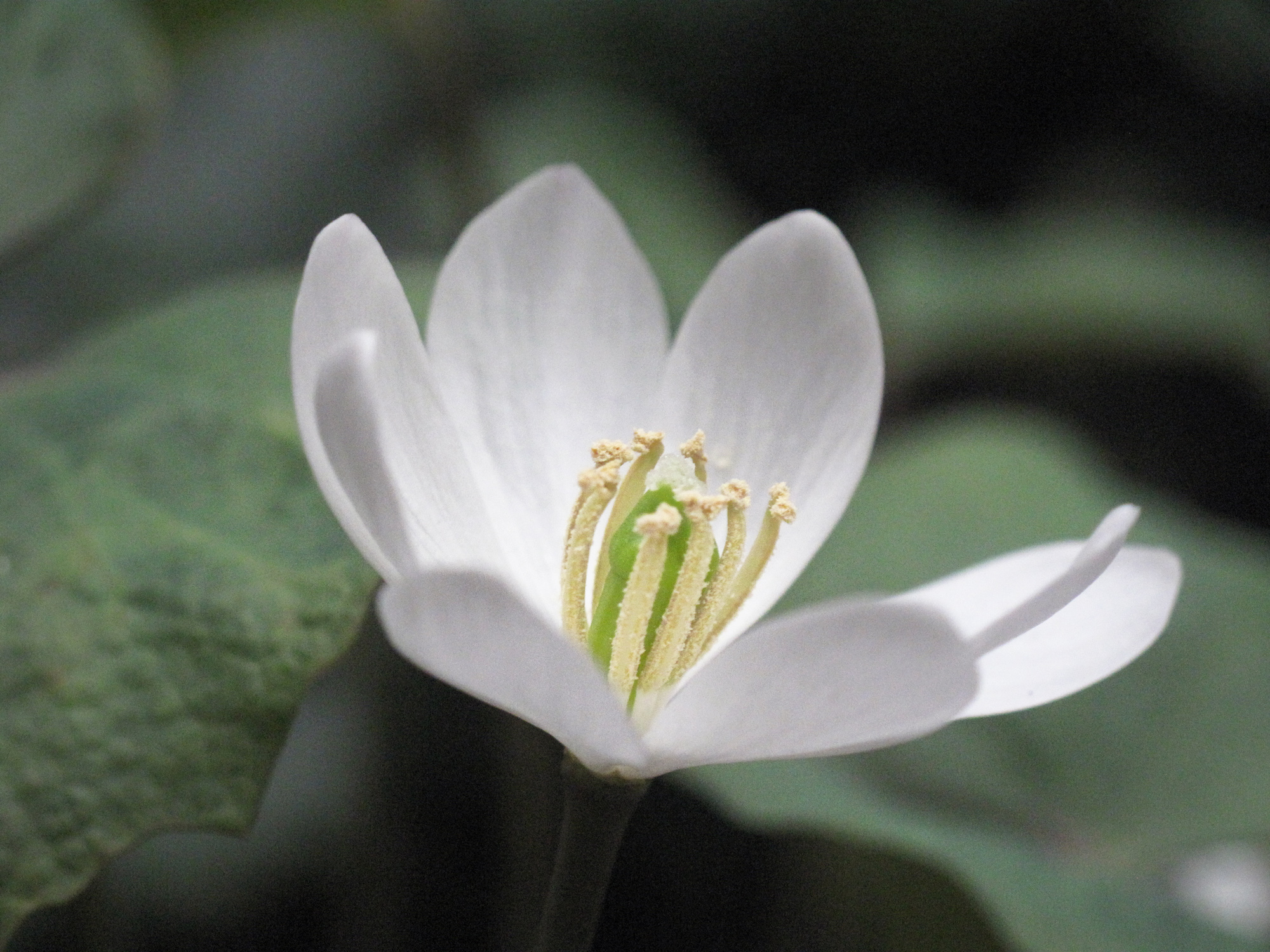 Jeffersonia diphylla in bloom. This native North American wildflower, typically found in woodlands, blossoms in early April for about one day.